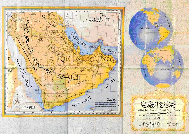 Saudi Arabian Map of 1952 displaying the correct name for the Persian Gulf.